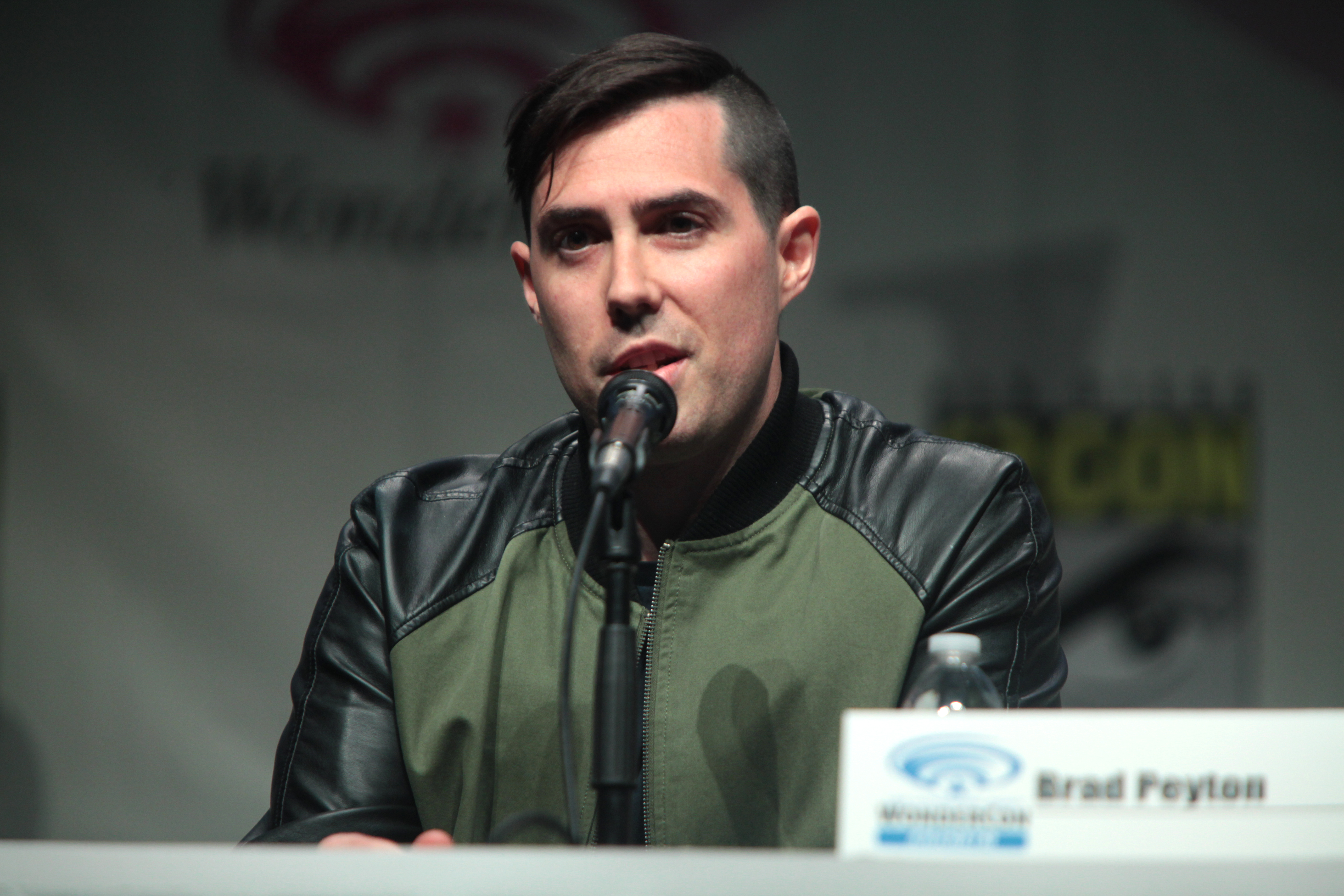 Brad Peyton speaking at the 2015 Wondercon, for "San Andreas", at the Anaheim Convention Center in Anaheim, California.